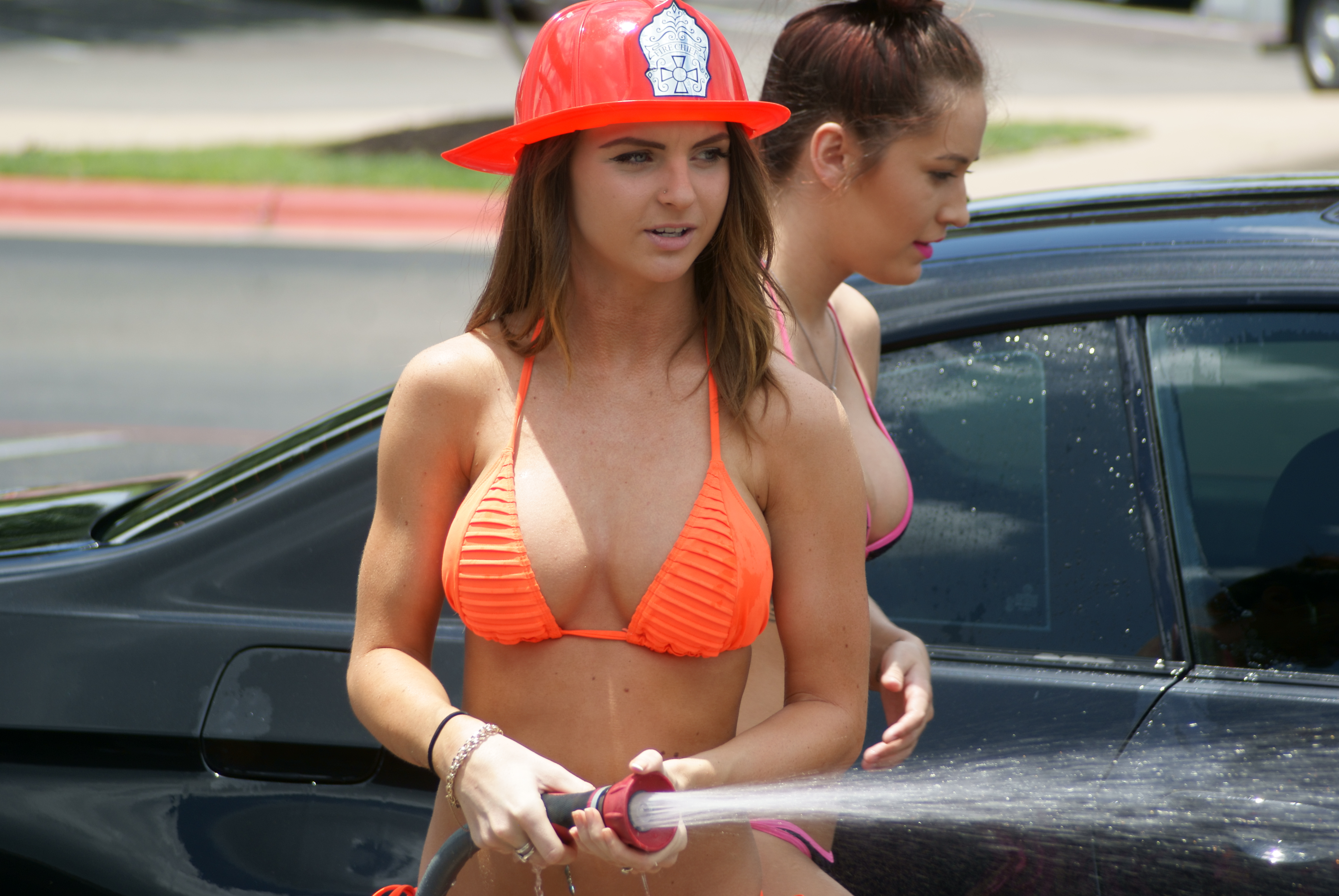 Twin Peaks bikini car wash.